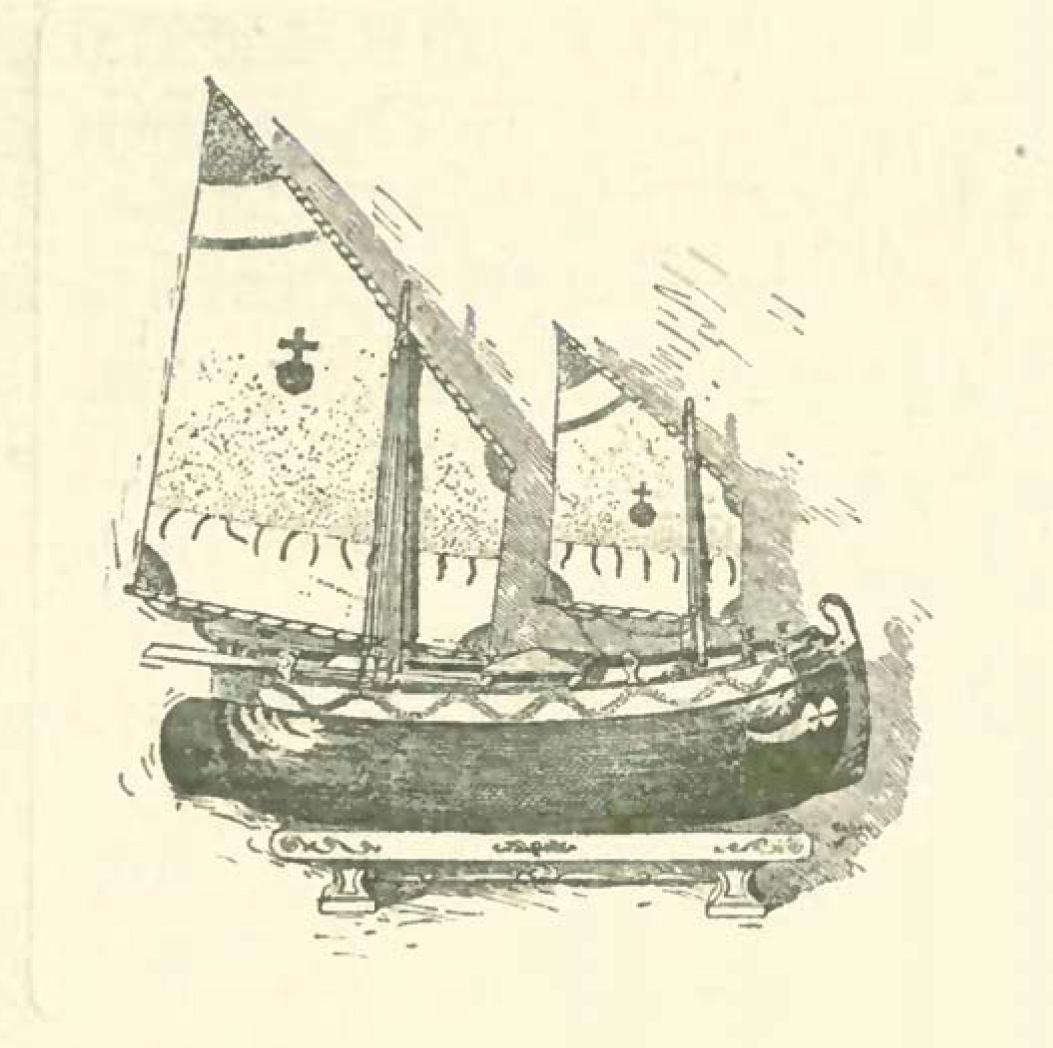 Alexander Wilson Drake, image from Three Midnight Stories. Private printing 1916, scanned from family-owned copy of original work. Summary Alexander Wilson Drake, image from Three Midnight Stories. Private printing 1916, scanned from family-owned copy of original work.